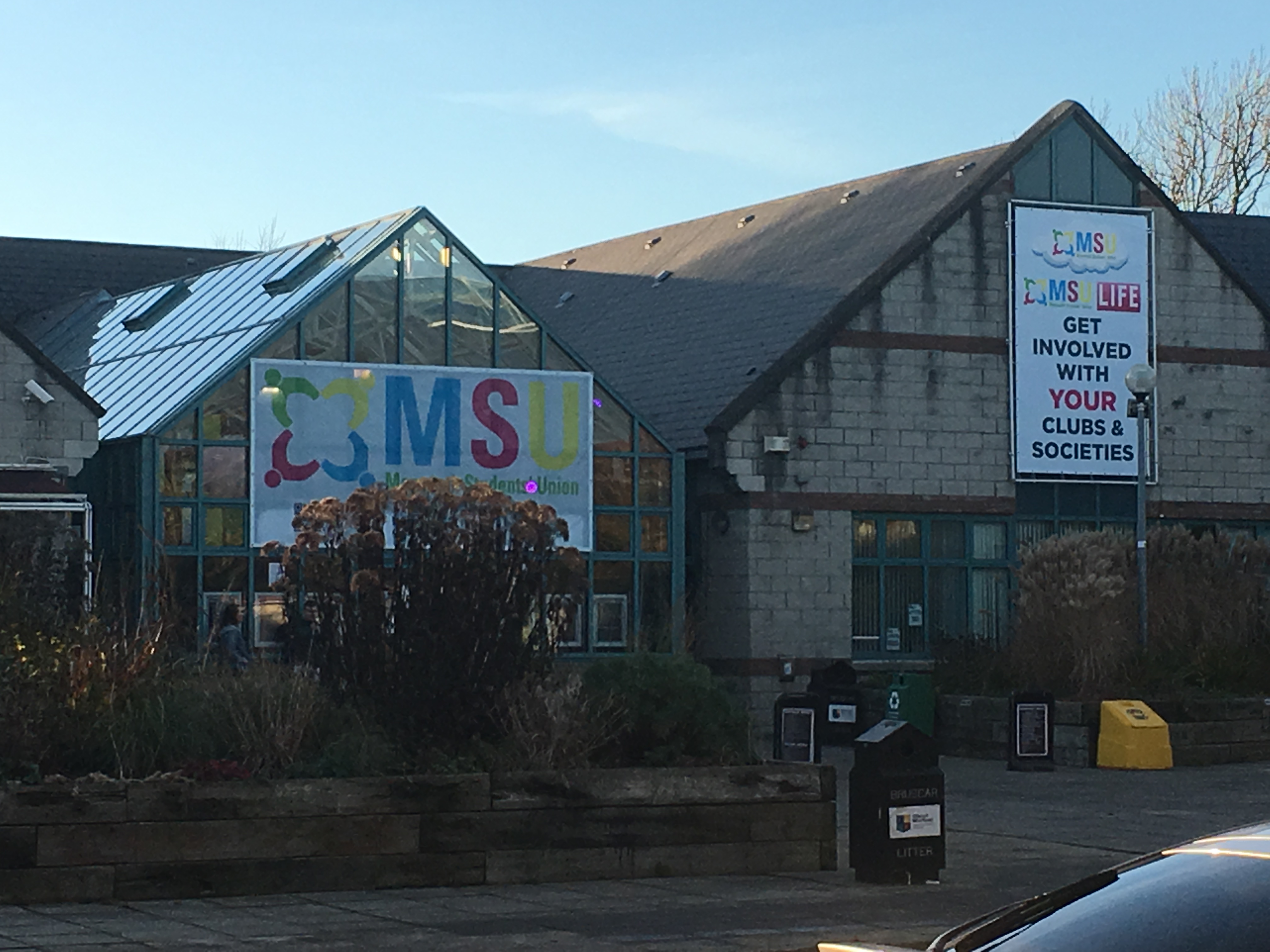 Picture of the students union in maynooth